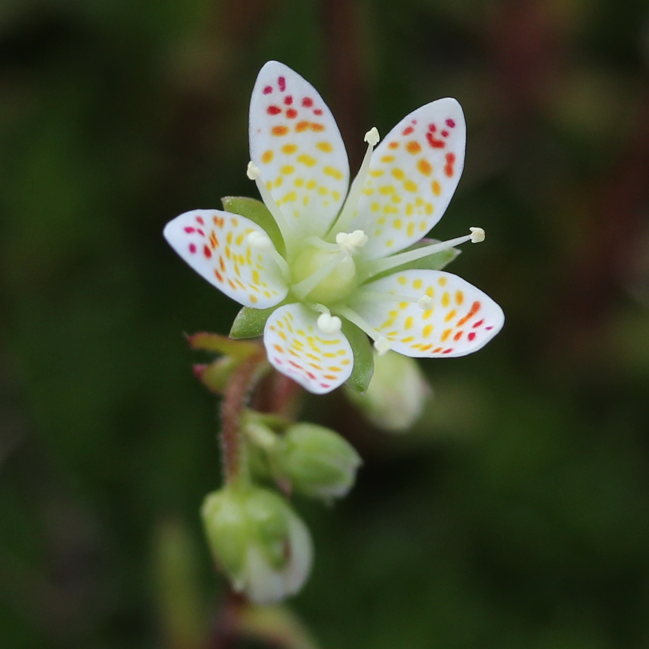 Saxifraga bronchialis subsp. funstonii var. rebunshirensis, in Mount Tsurugi, Kamiichi, Toyama prefecture, Japan.